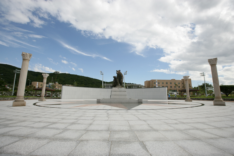 Bear bronze statue of Dangun myth, Ethnic origin(Dankook University, Jukjeon)